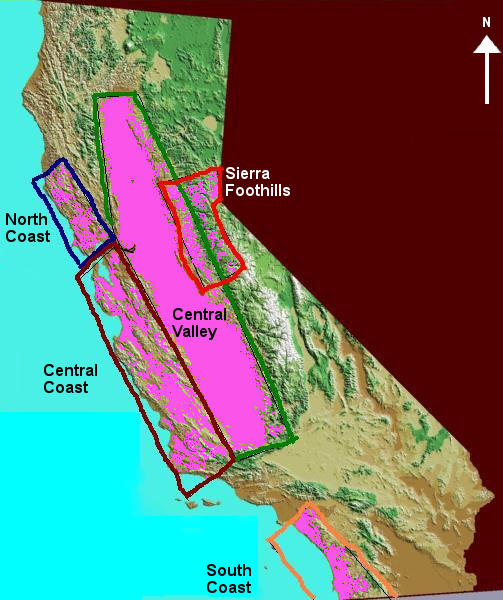 California wine region in English